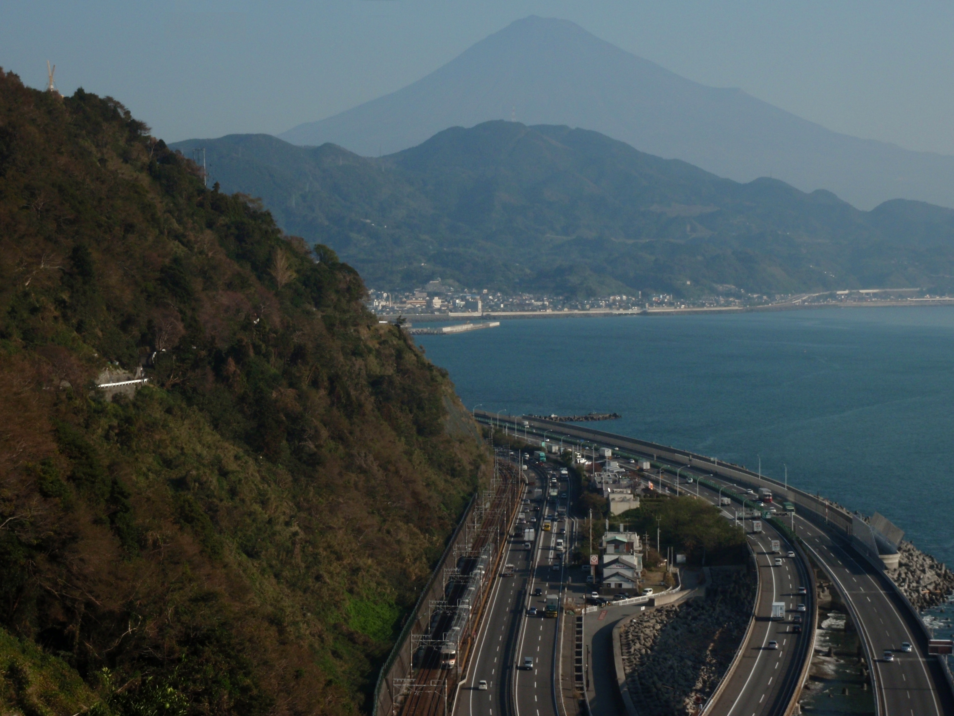 JR Central 373 series EMU on Local service train bound for Shizuoka in Tokaido Main Line against the Mt.Fuji.